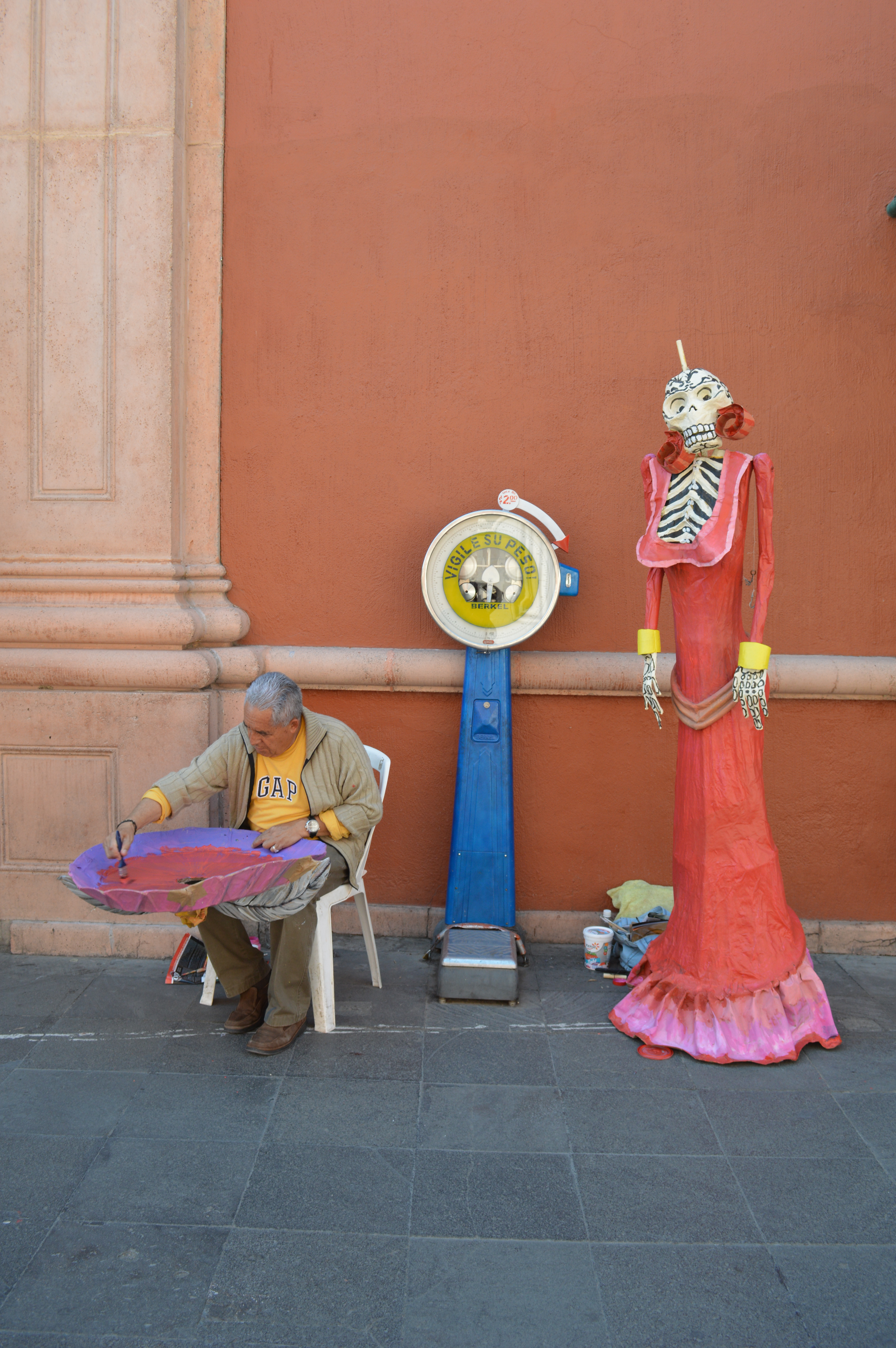 Catrina image in progress for the upcoming Festival de Calaveras 2015 on 5 de mayo, southside of the main plaza of the city of Aguascalientes, Mexico